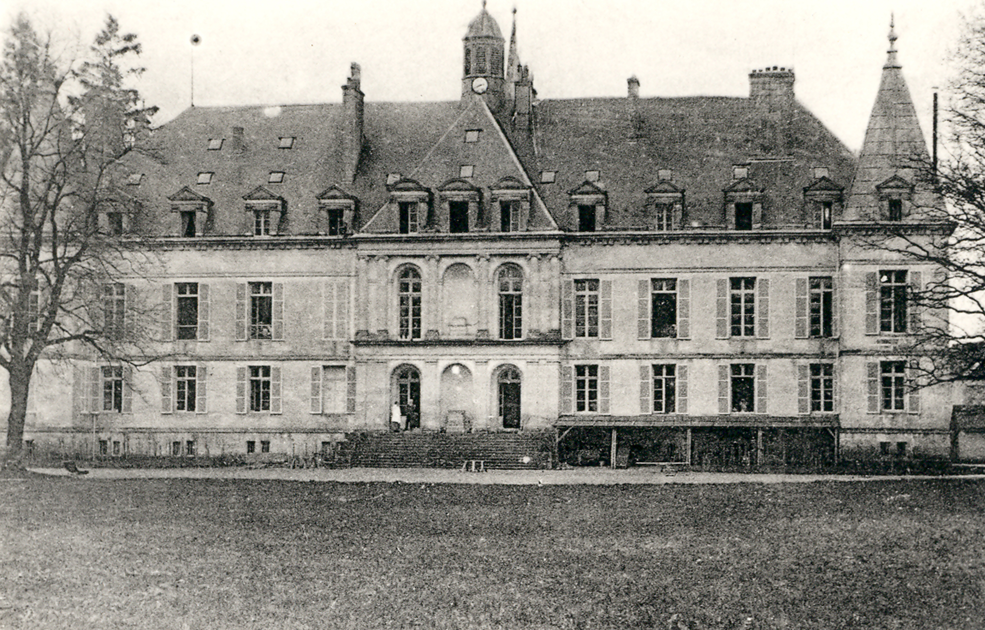 Commercially printed postcard sent as private correspondence, 1915. Other information The authenticity of date and subject matter of this file was confirmed through comparison of image with documents obtained from other archival sources.